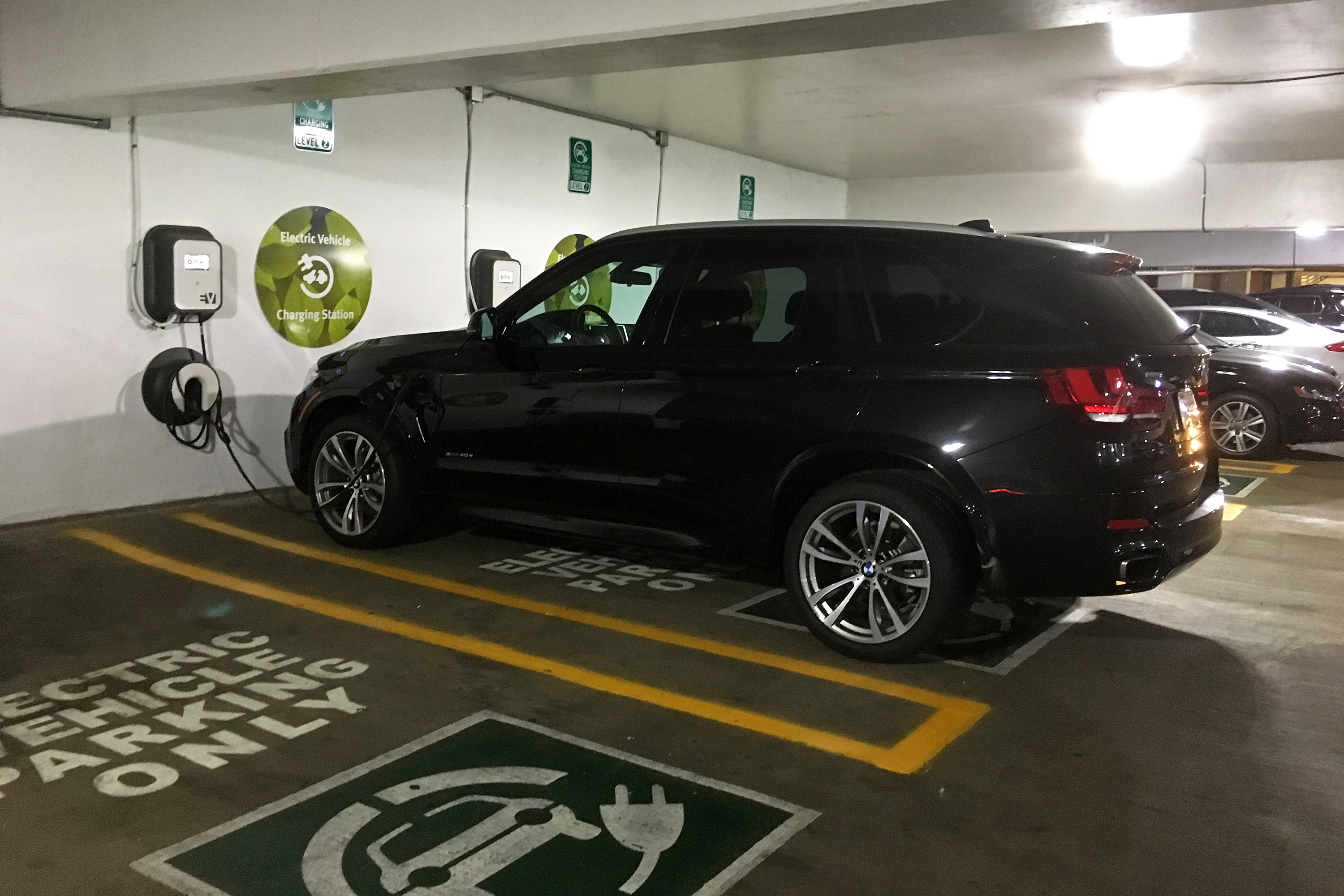 BMW X5 xDrive40e charging at a garage EV charging station at Fashion Centre at Pentagon City, Arlington, Virginia.